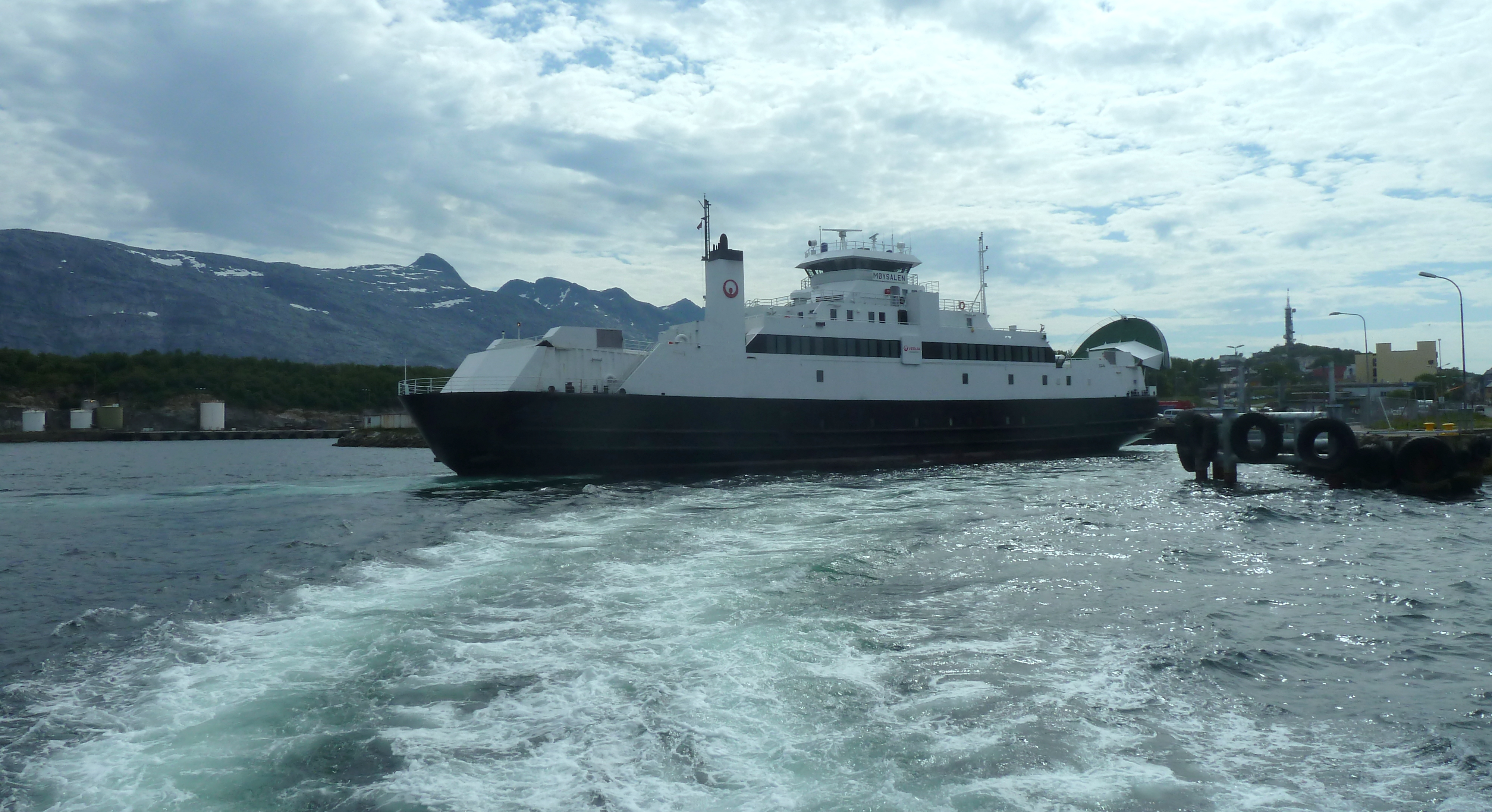 Car ferry Møysalen entering dock at Sandnessjøen